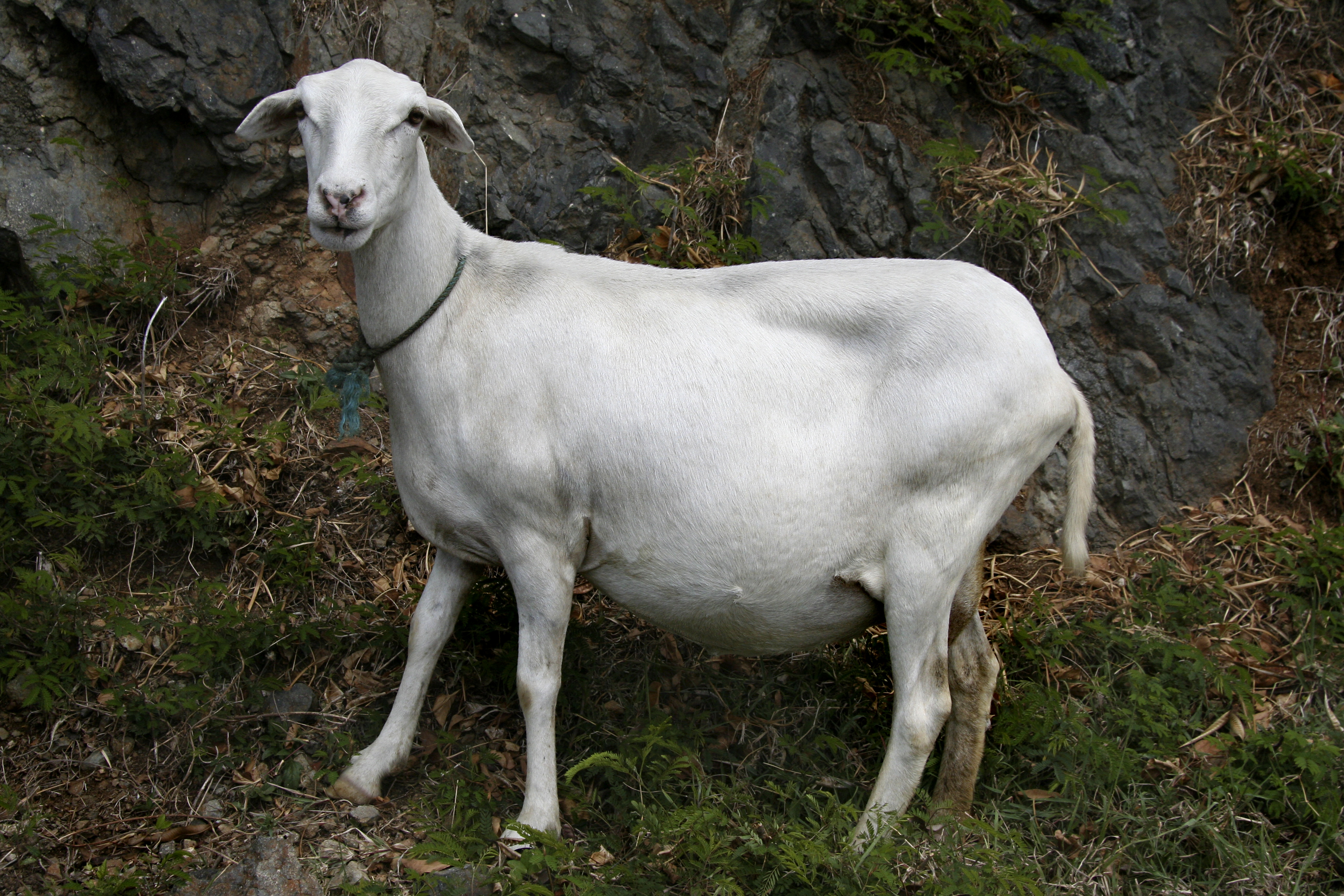 A pregnant Virgin Island White (aka St Croix sheep) ewe on the island of Tortola in the British Virgin Islands.